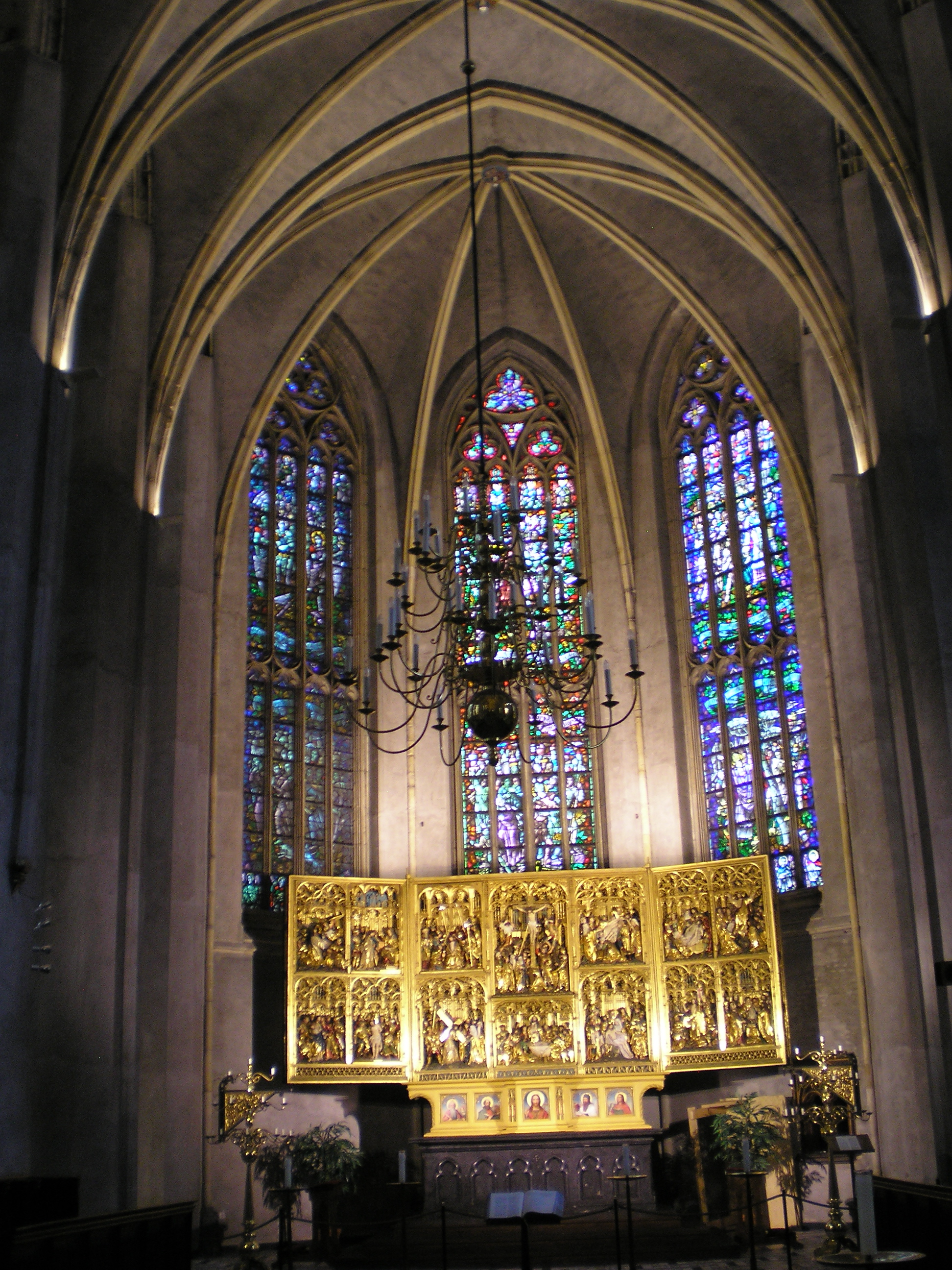 Interior of the Grote or Sint-Martinuskerk in Venlo in the Netherlands